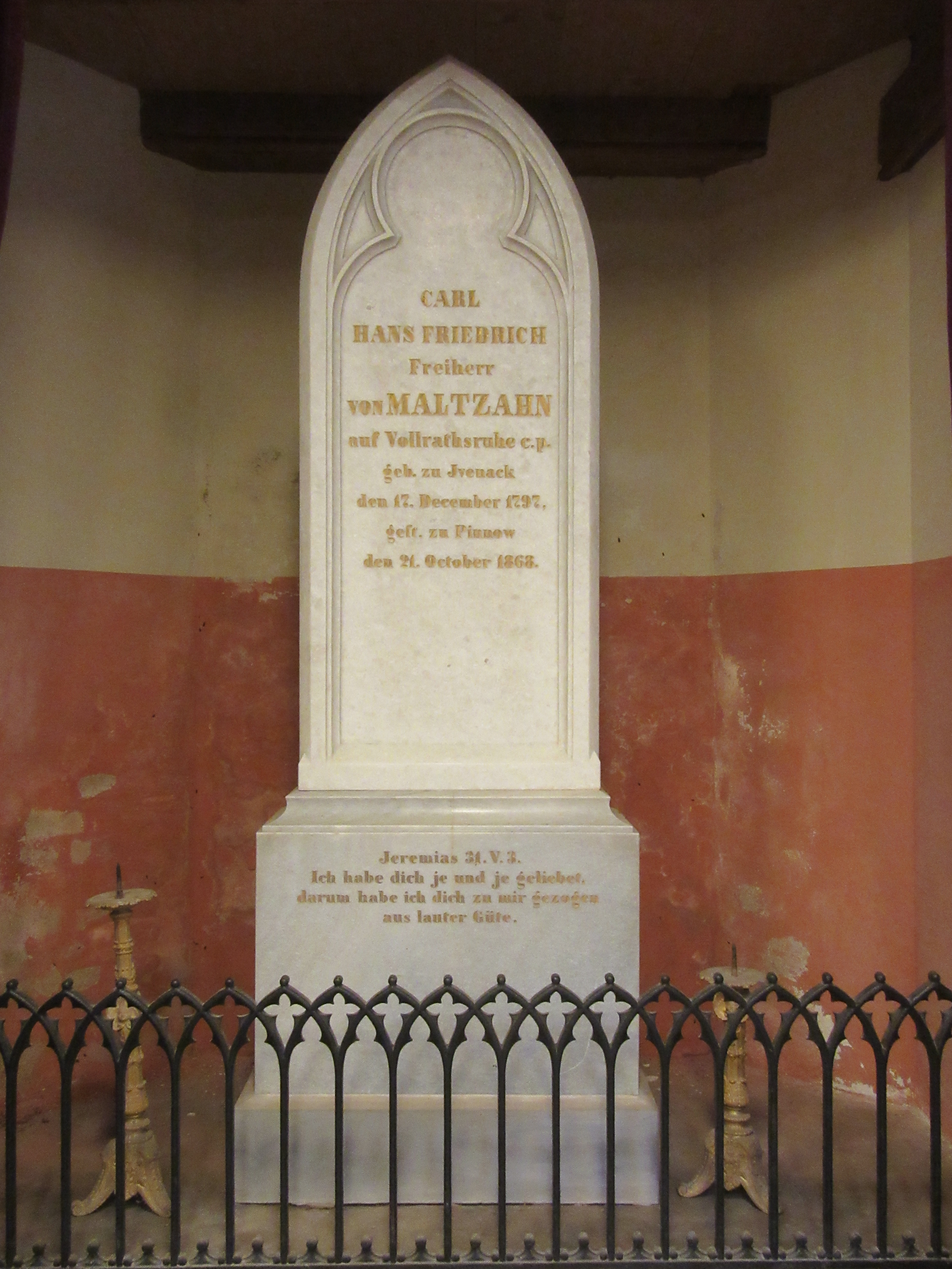 Kirche Kirch Grubenhagen, Grabmonument für Karl von Maltzahn